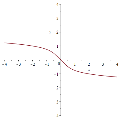 y=Br(x)